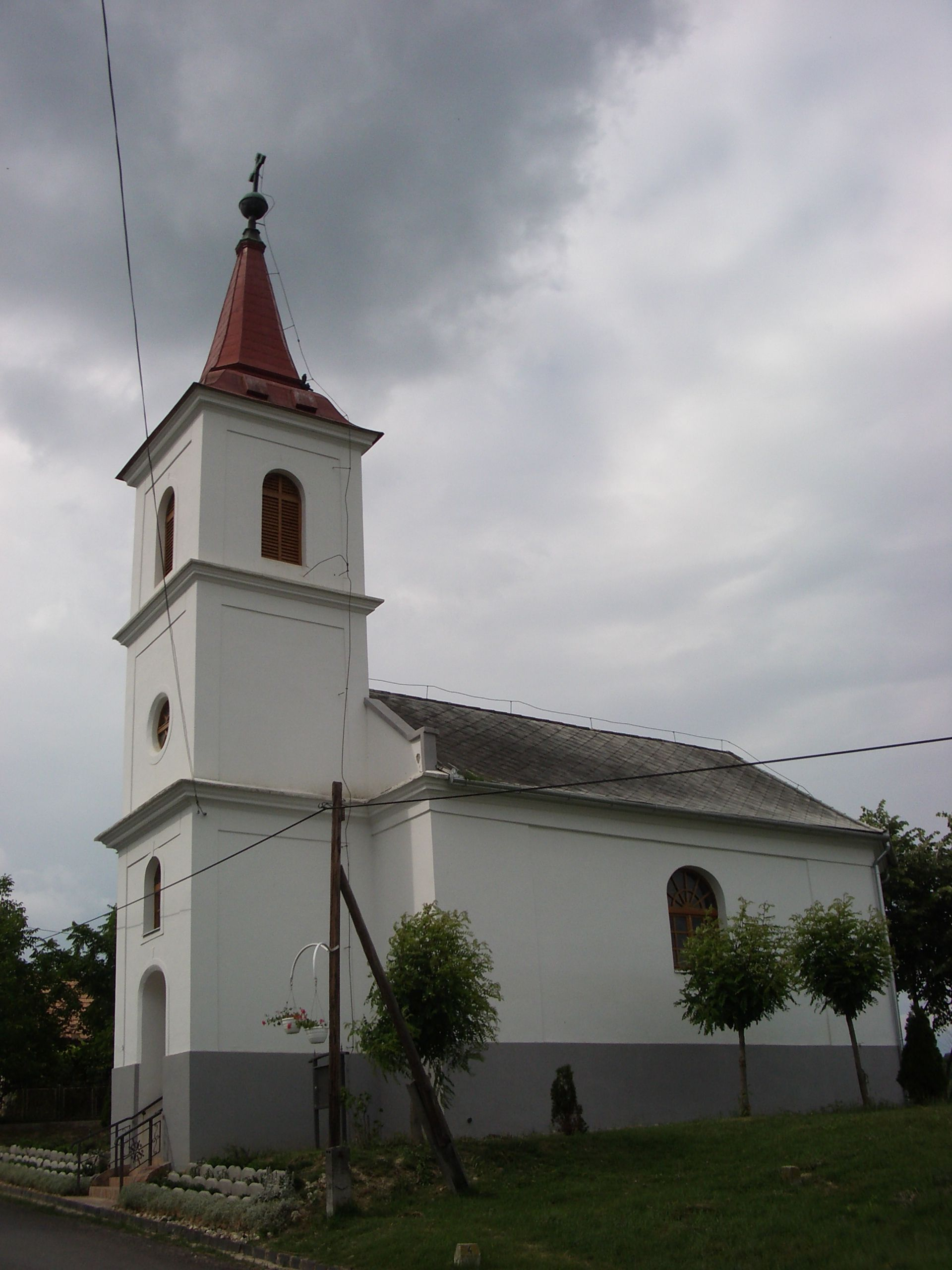 Protestant church in Torvaj (Hungary); view from the main road (uphill)